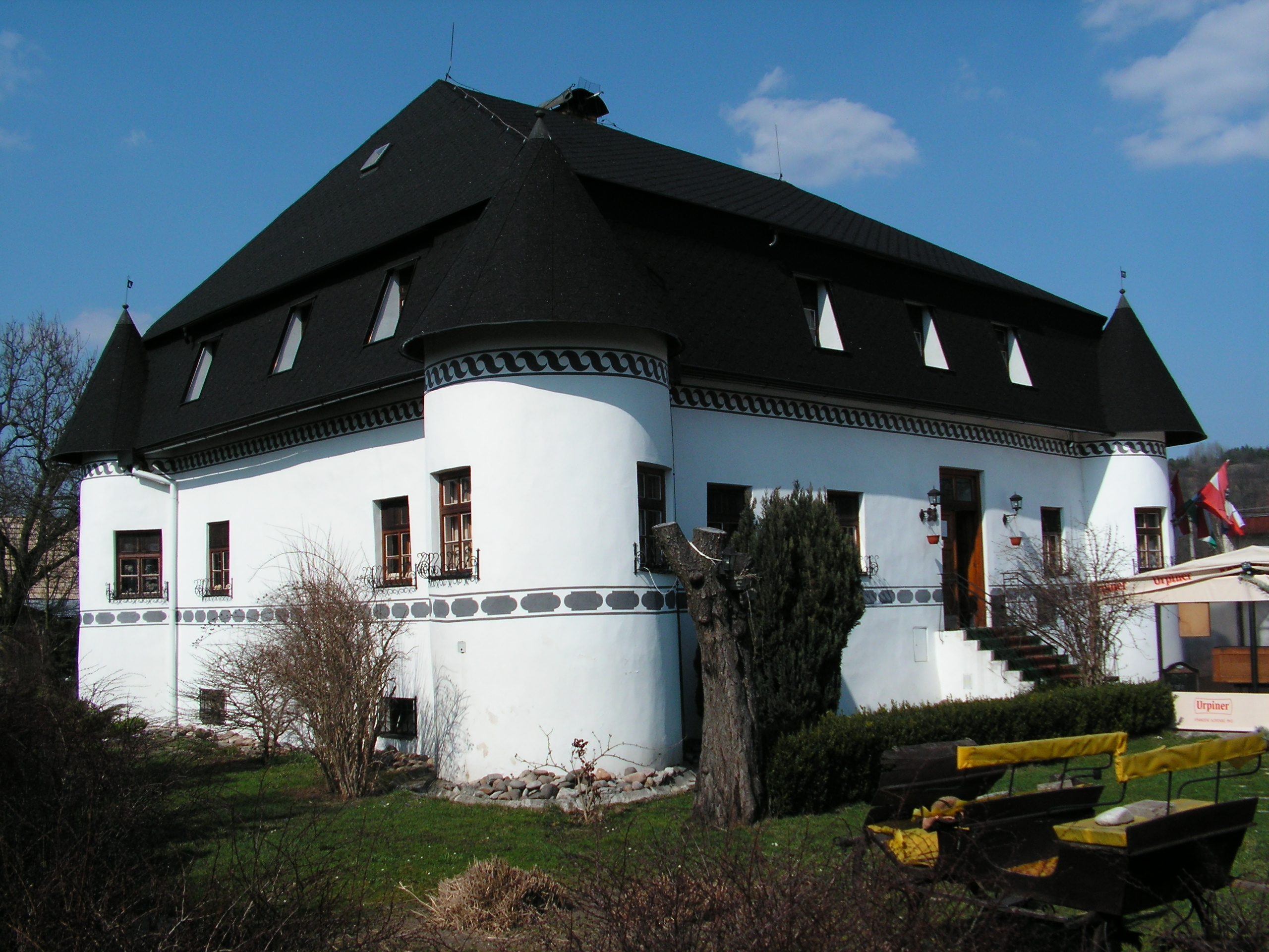 Manor-house